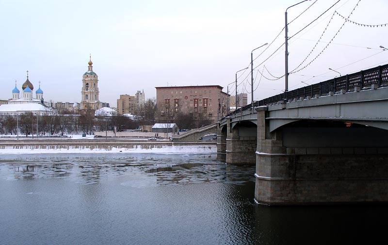 Novospassky Bridge and Convent, Moscow, Russia